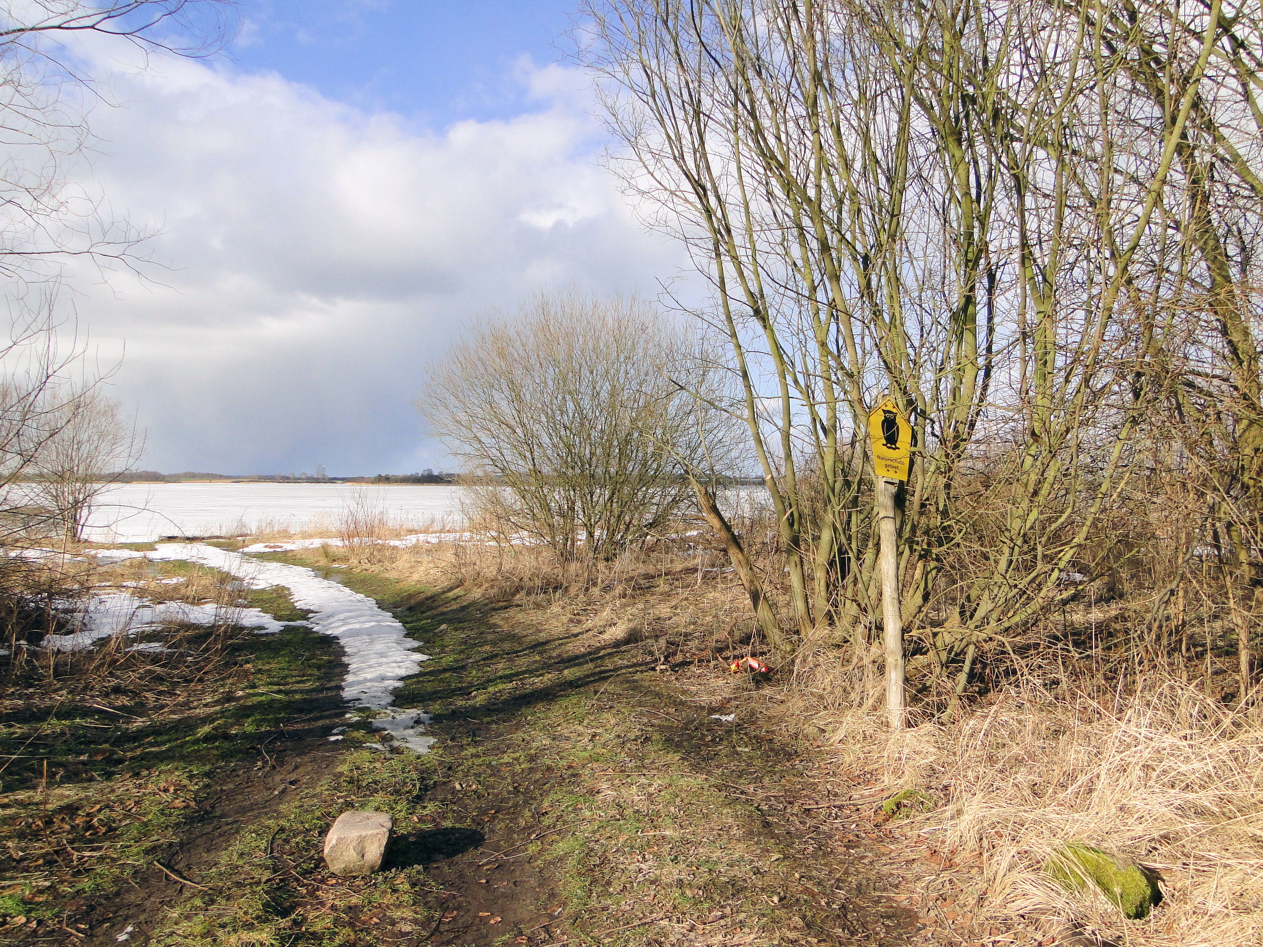 Frozen lake Dassower See in Zarnewenz, disctrict Nordwestmecklenburg, Mecklenburg-Vorpommern, Germany